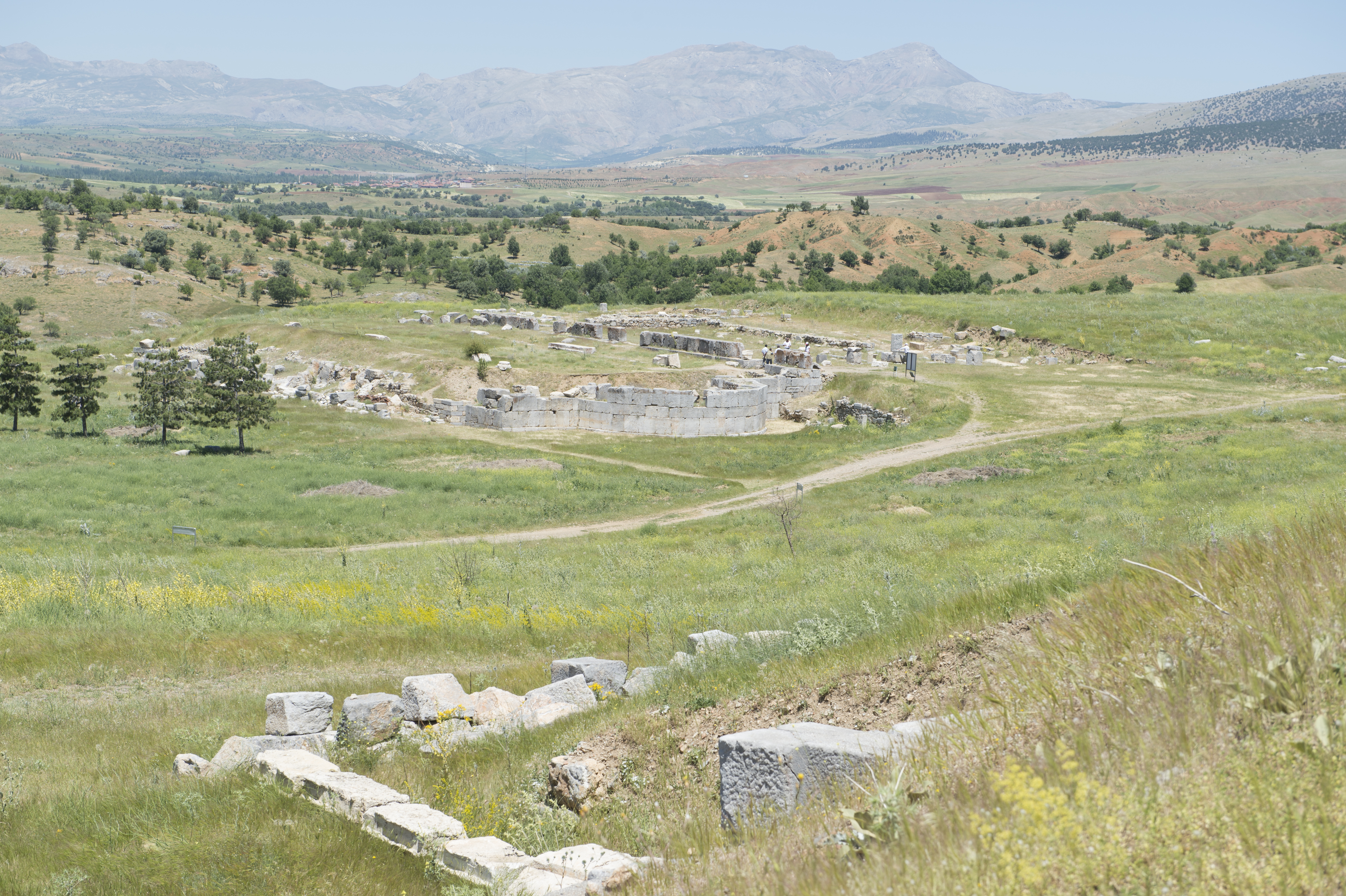 From the theatre a view towrds the Great Basilica or St. Paul's church. This view shows its contours rather well.